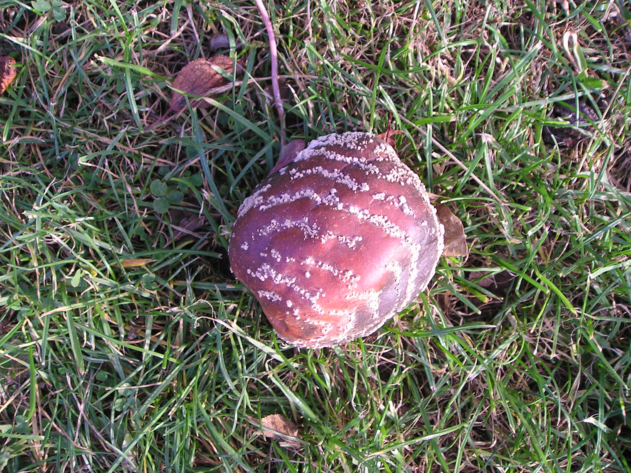 Sclerotinia fructigena on apple, Malus domestica.